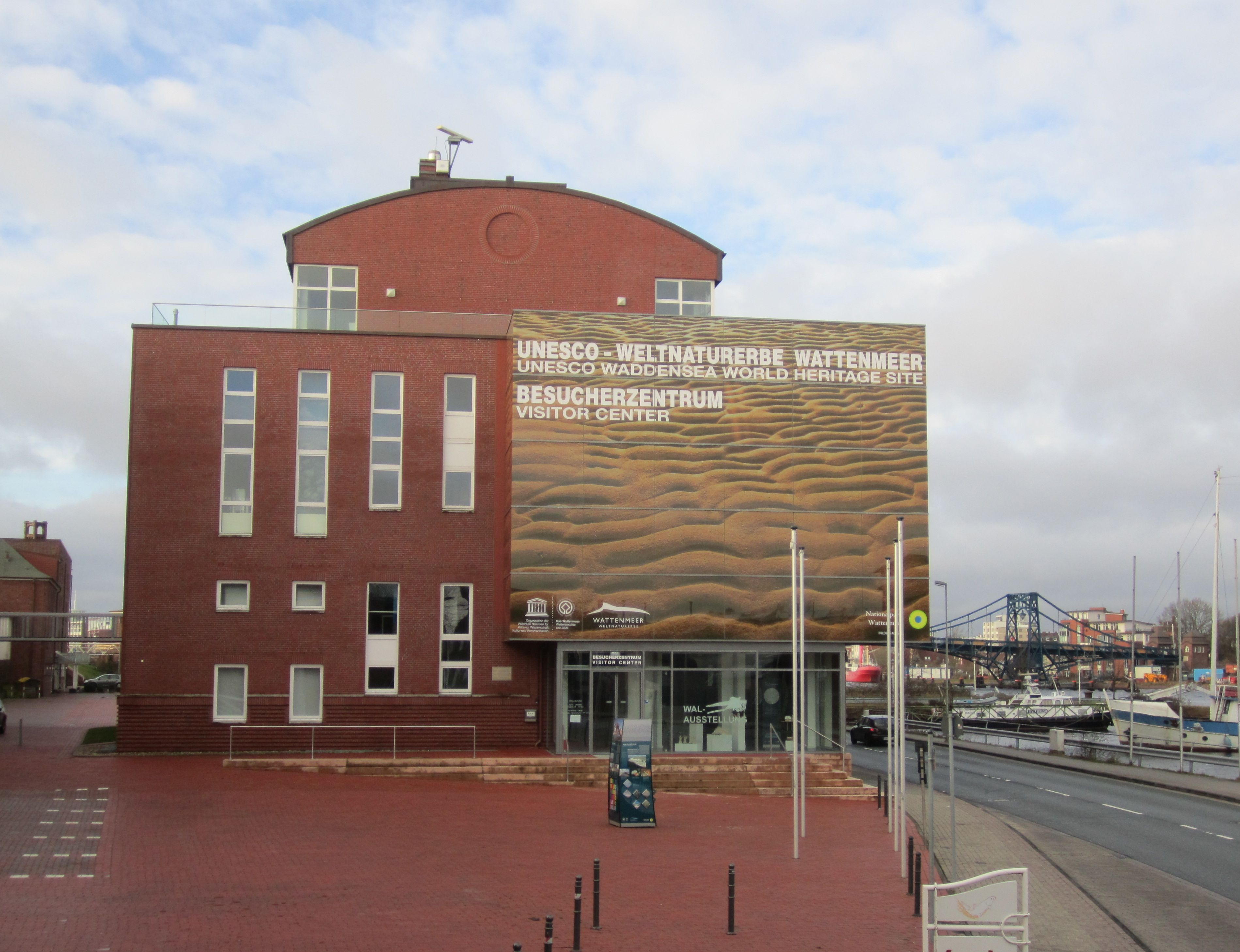 Wattenmeerhaus in Wilhelmshaven, Germany.